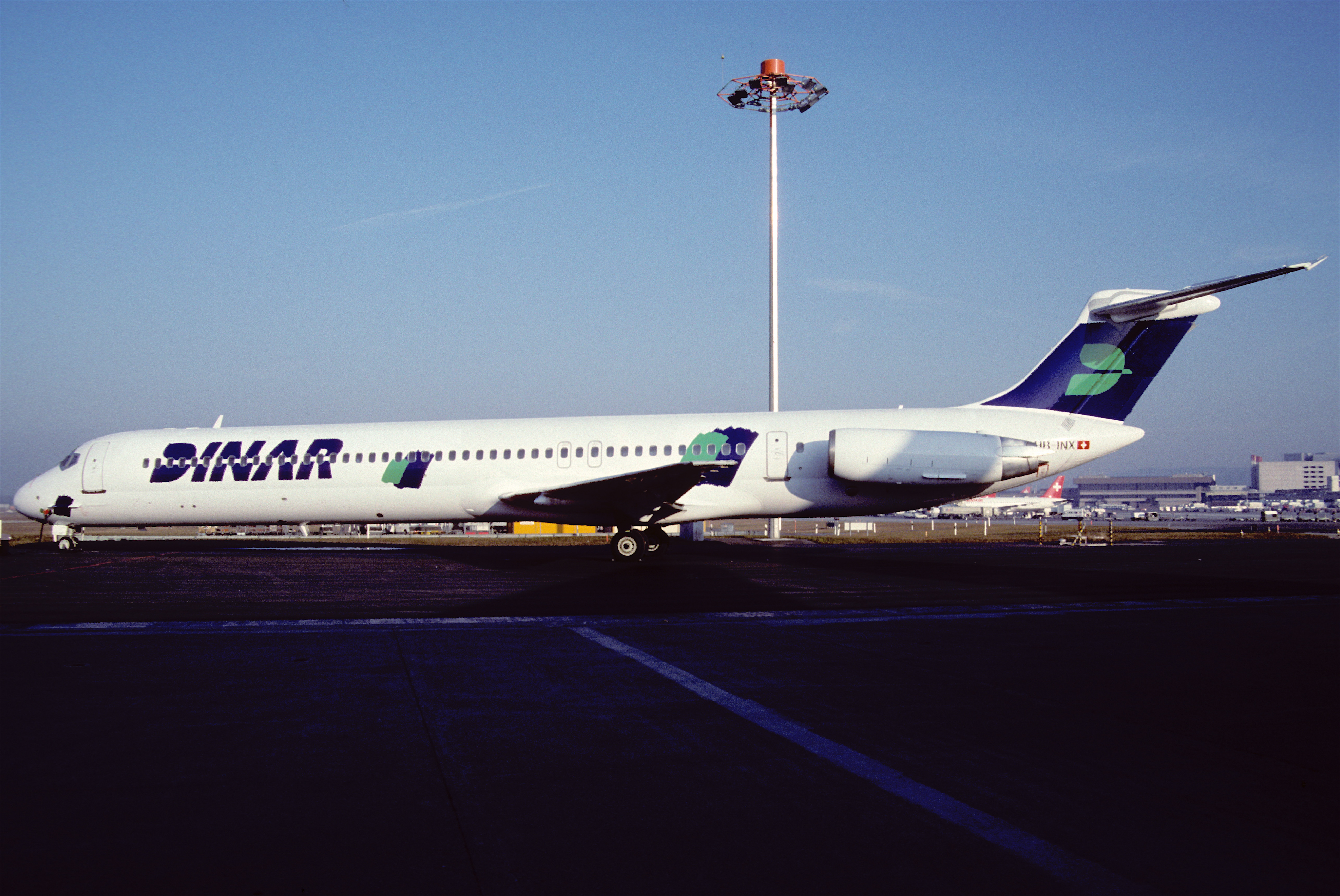 DINAR Lineas Aéreas MD-81; HB-INX@ZRH, February 1998/ CUY